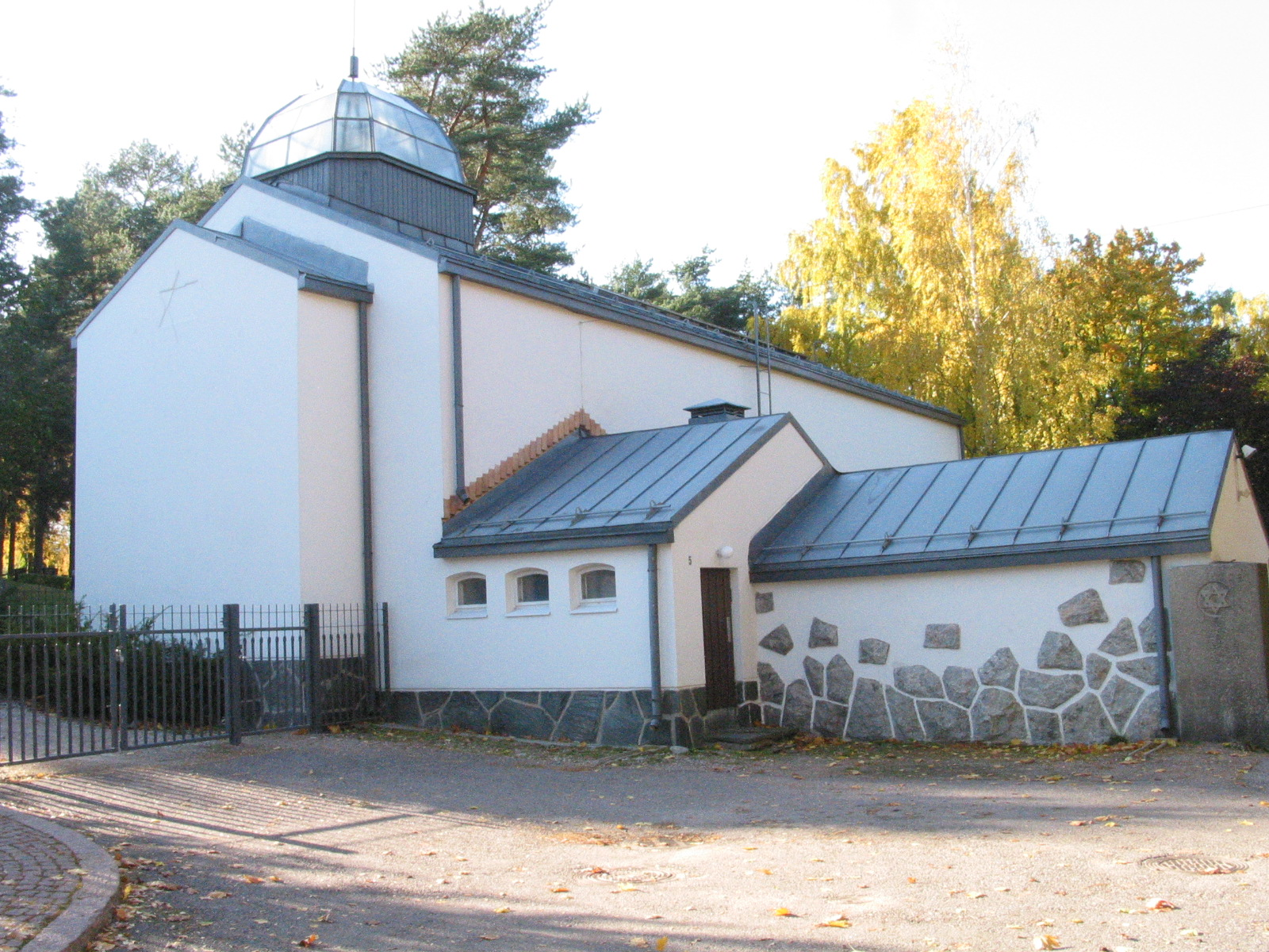 Jewish Cemetery, Helsinki, Finland, Chapel